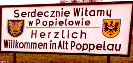 Welcome sign of Alt-Poppelau (Popielów) near Opole in Poland.